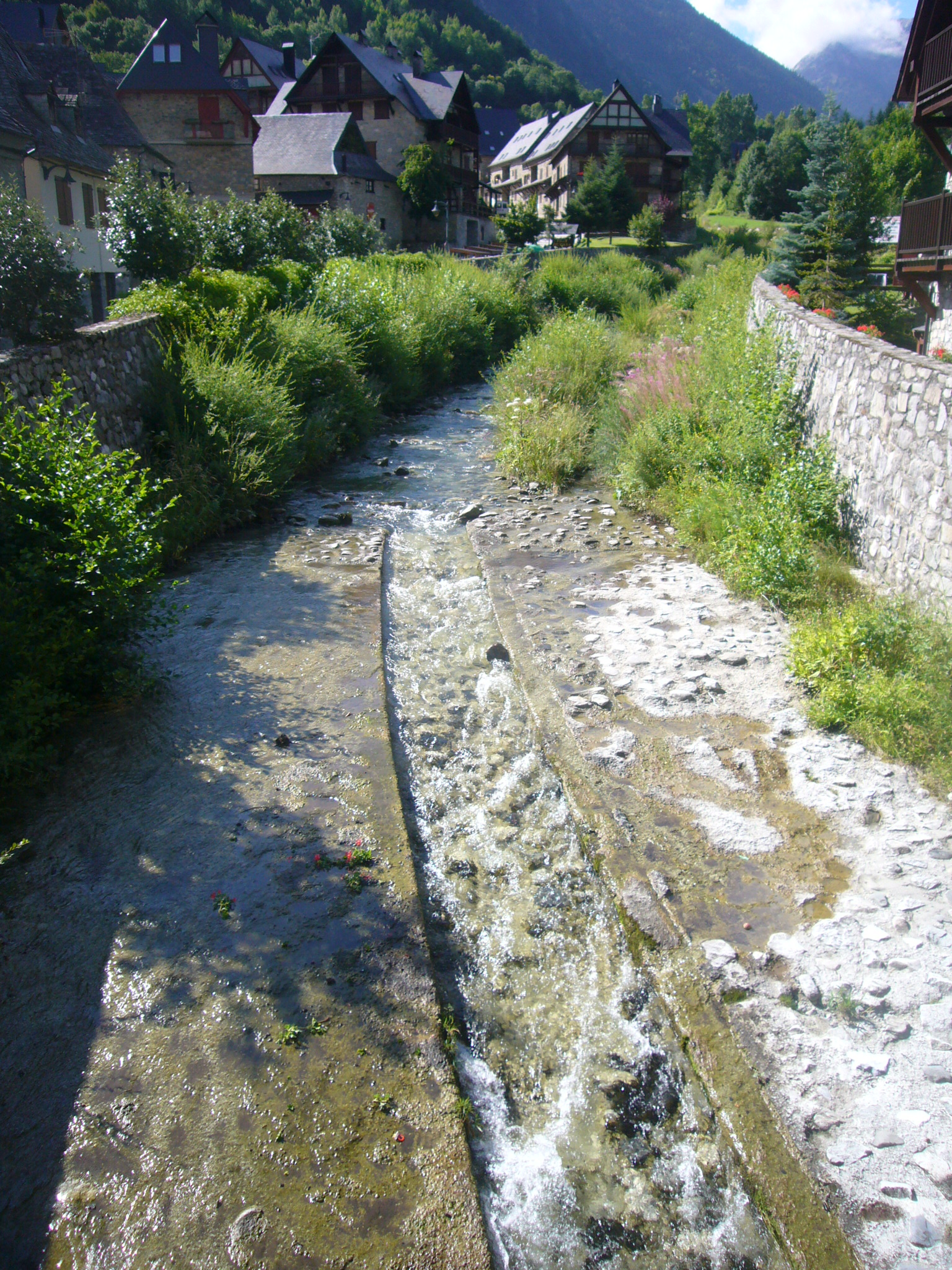 River Valartiers crossing the village of Arties